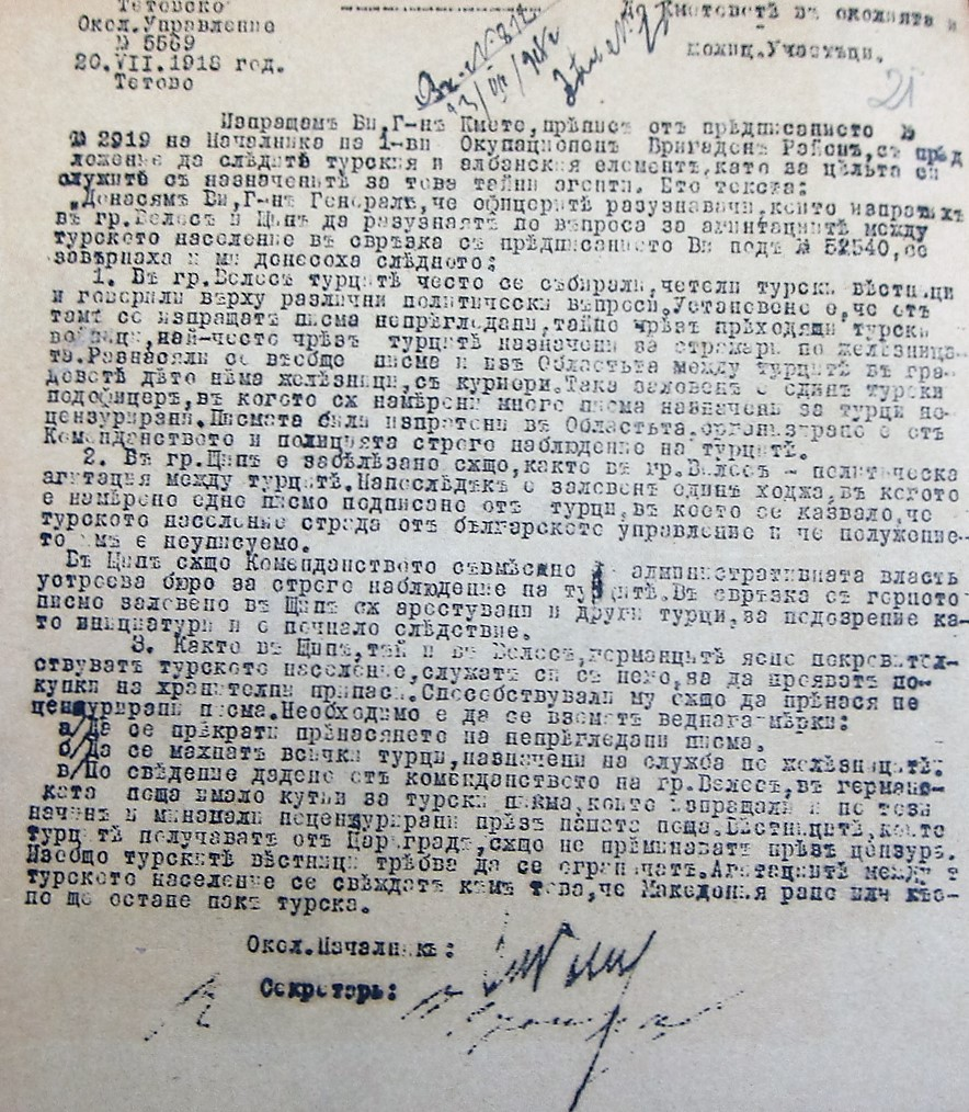 Press the emergence of Turkish rebels in Veles and Stip. July 20, 1918, Tetovo This media file is produced by Wikipedian in Residence in Category:Wikipedian in Residence at DARM in 2016.